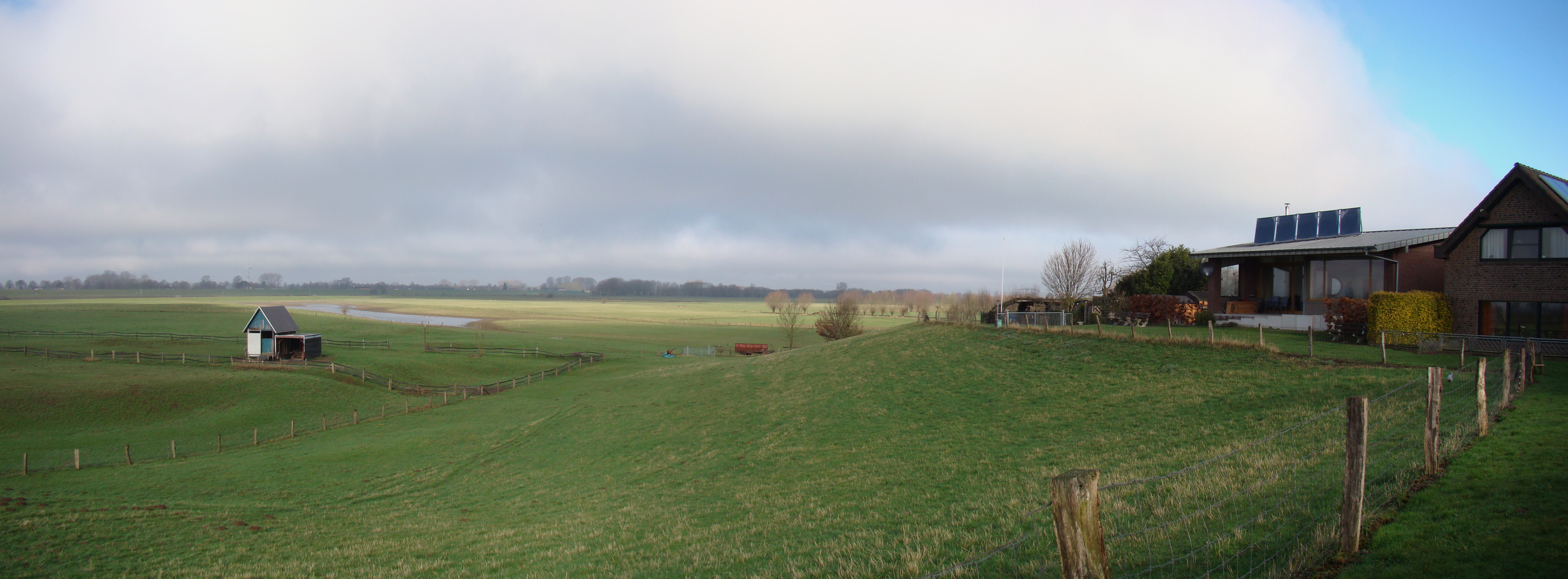 Impression of Schenkenschanz, Germany